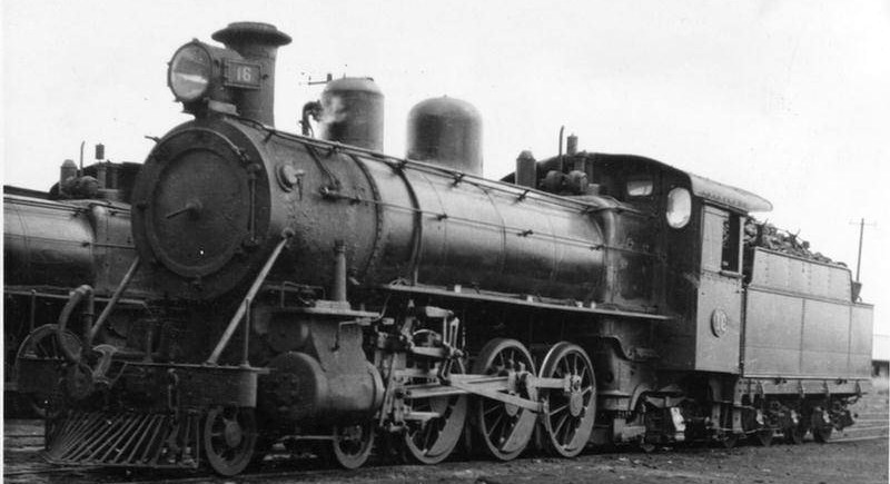 A three quarter view of MRWA C class steam locomotive no. C16 in the loco yard at Midland Junction, Western Australia